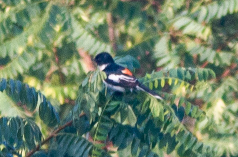 White-bellied Minivet